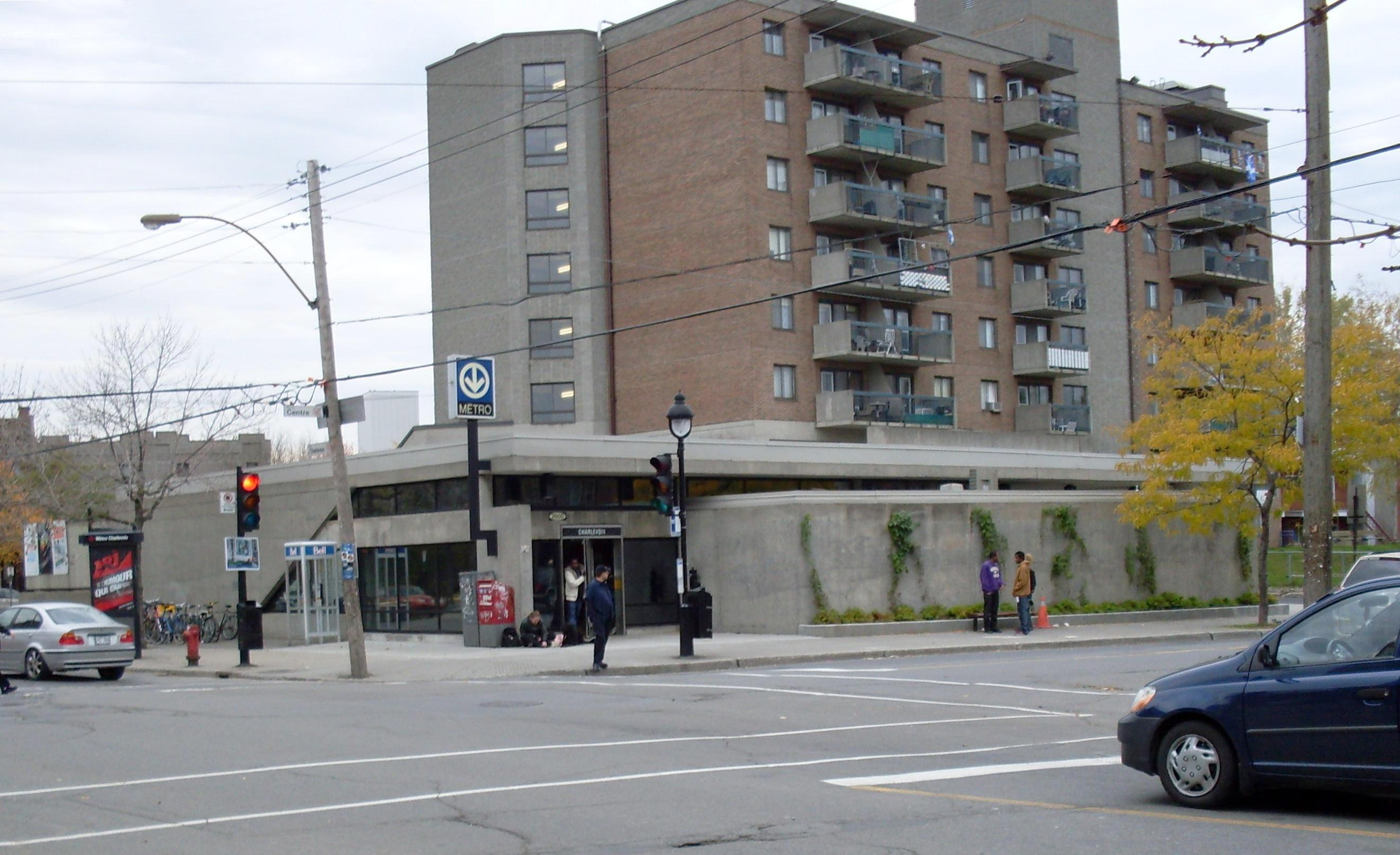 Charlevoix, Montreal Metro